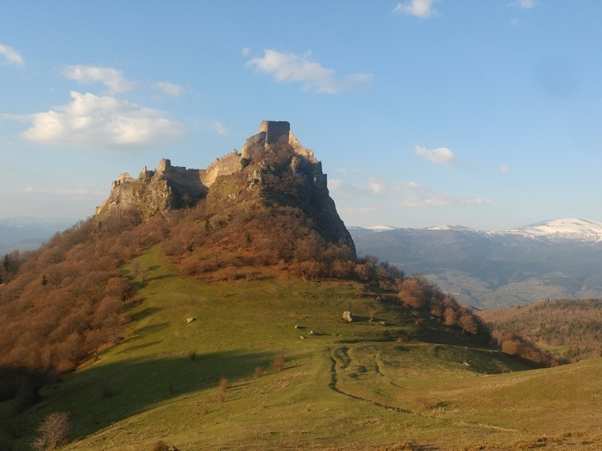 Medieval castle of Okros Tsikhe near Adigeni, Georgia